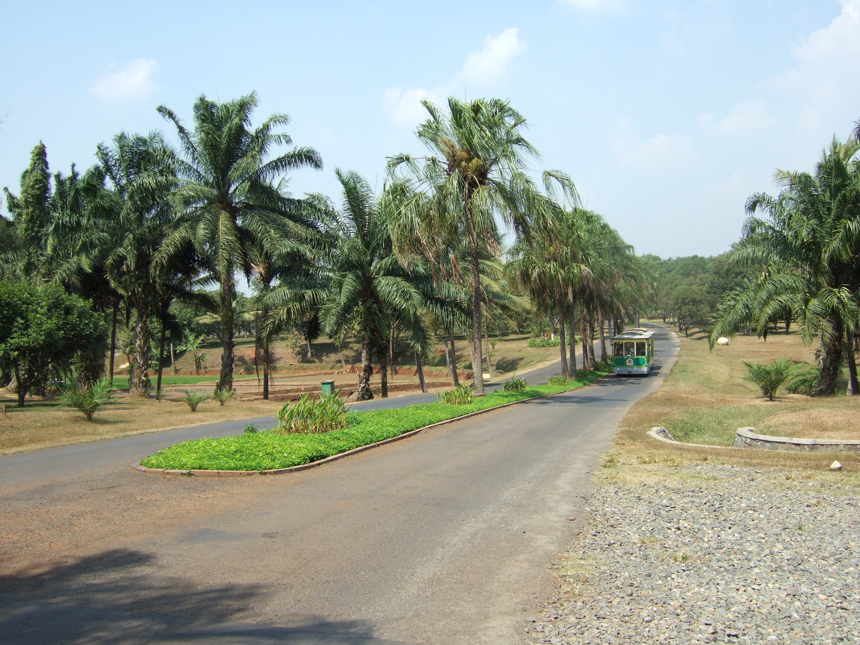 Inside Mekarsari Amazing Tourism Park